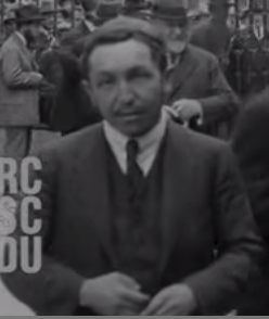 Julius Steinfeld at the first Knessia Gedolah Agudah - Vienna 1923